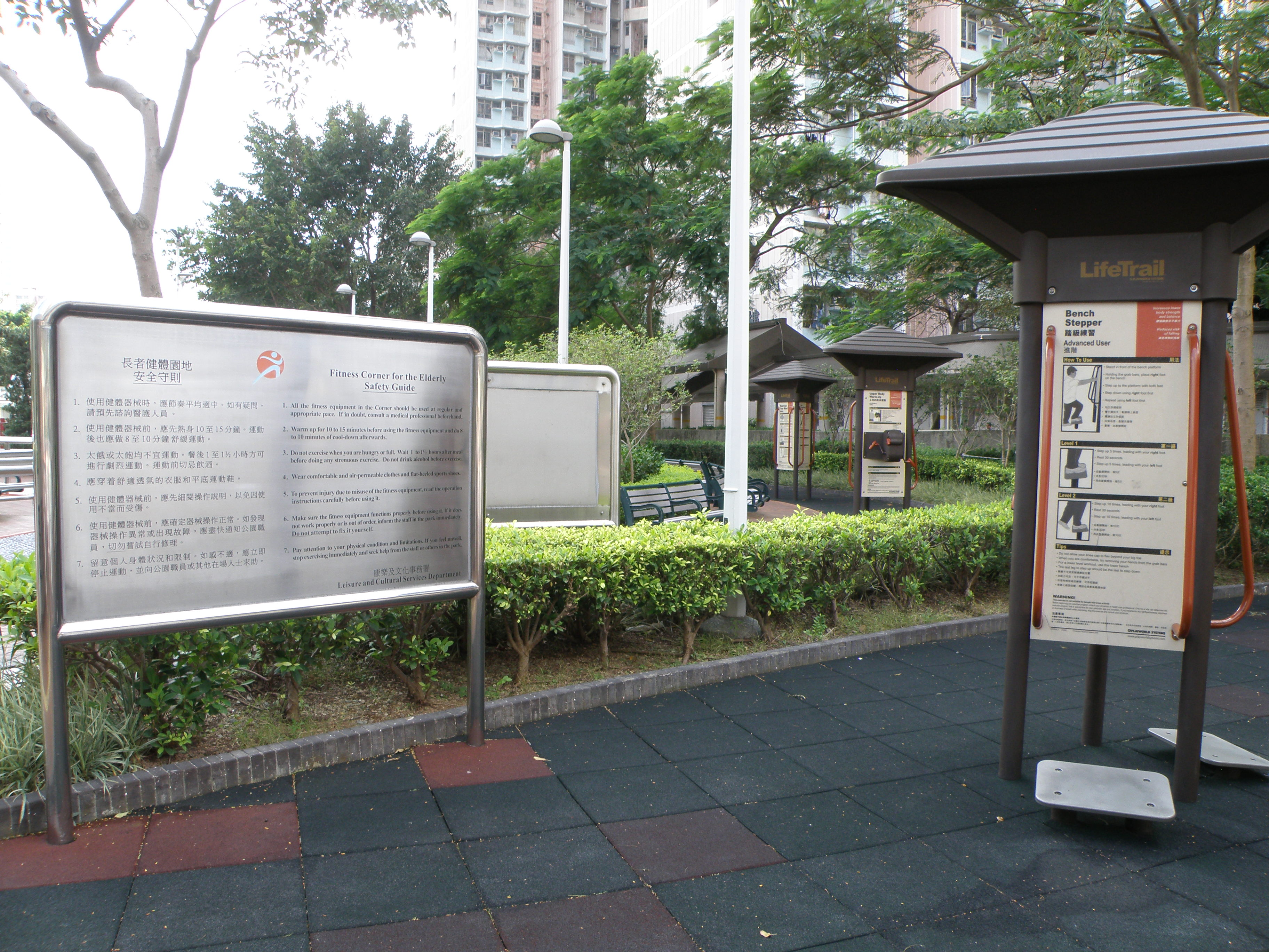 Fitness Corner for the Elderly in Kwai Chung San Kui Park, Hong Kong.